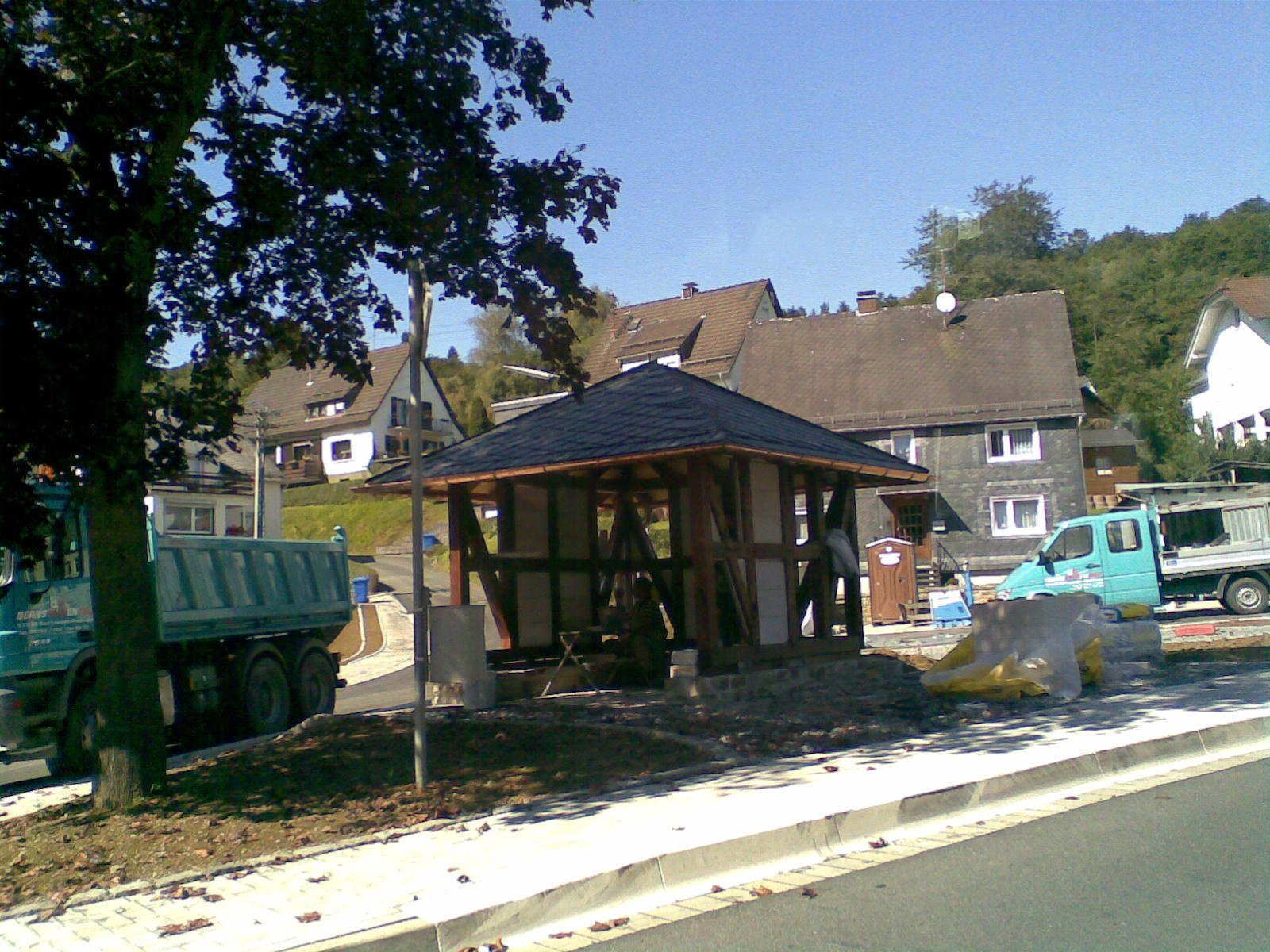 Construction of the villageplace